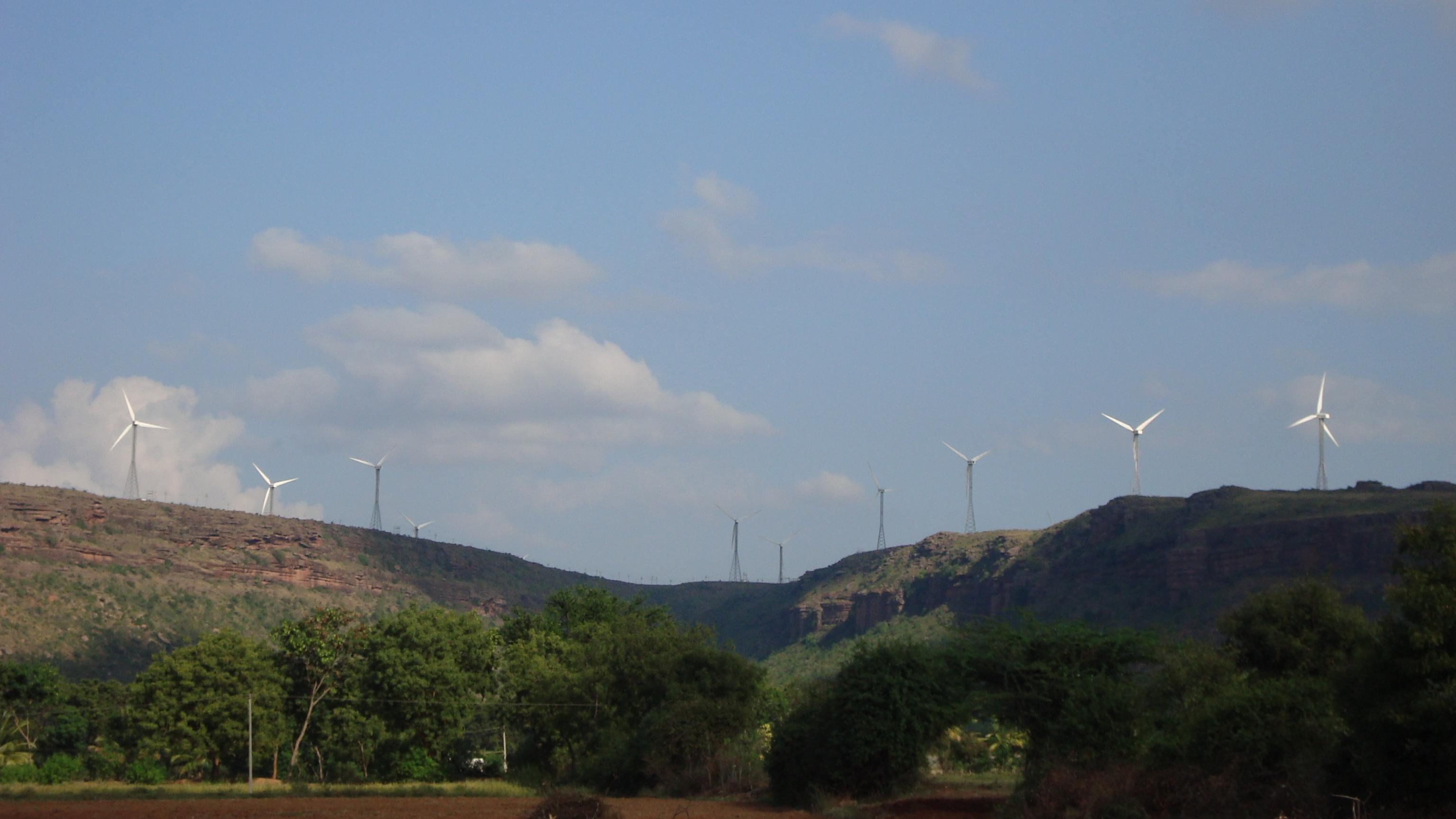 Gajendrgad nature.